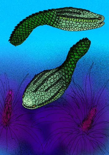 Reconstruction of the prehistoric fish, Astraspis desiderata, of Ordovician North America.